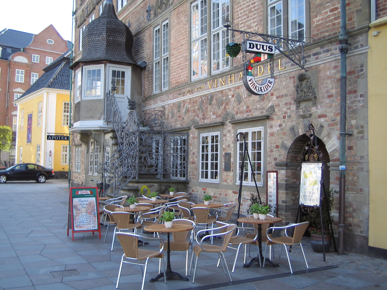 One of the old Restaurants (and Vinecellar)